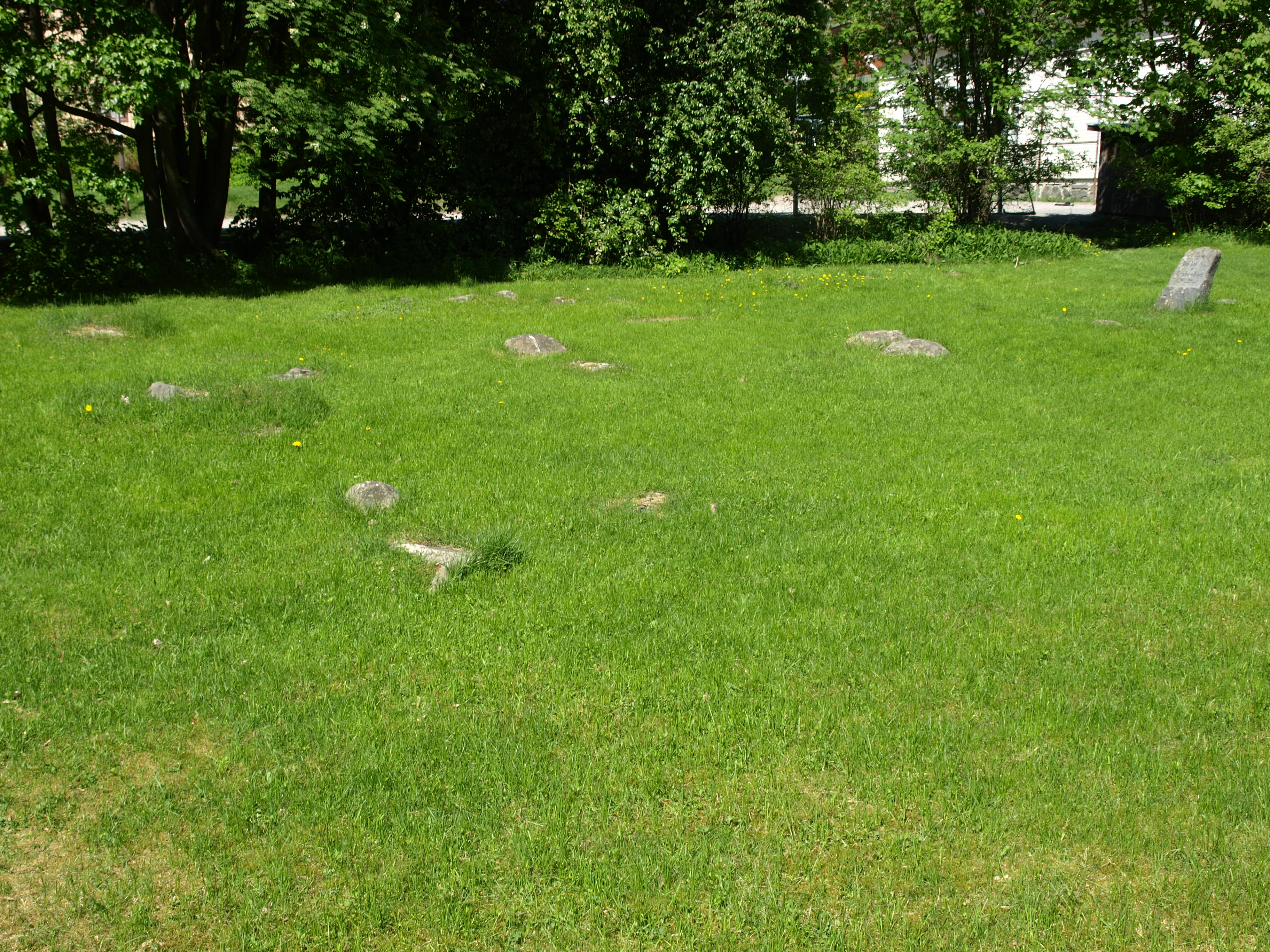 Old Gravestones next to Gadd Burial Chapel in Tampere, Finland